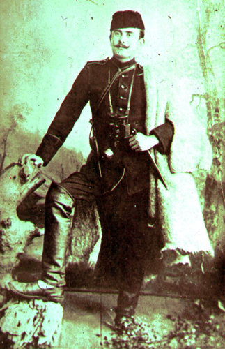 Yuzbashi Kiazim Efendi, 1906, Monastir.